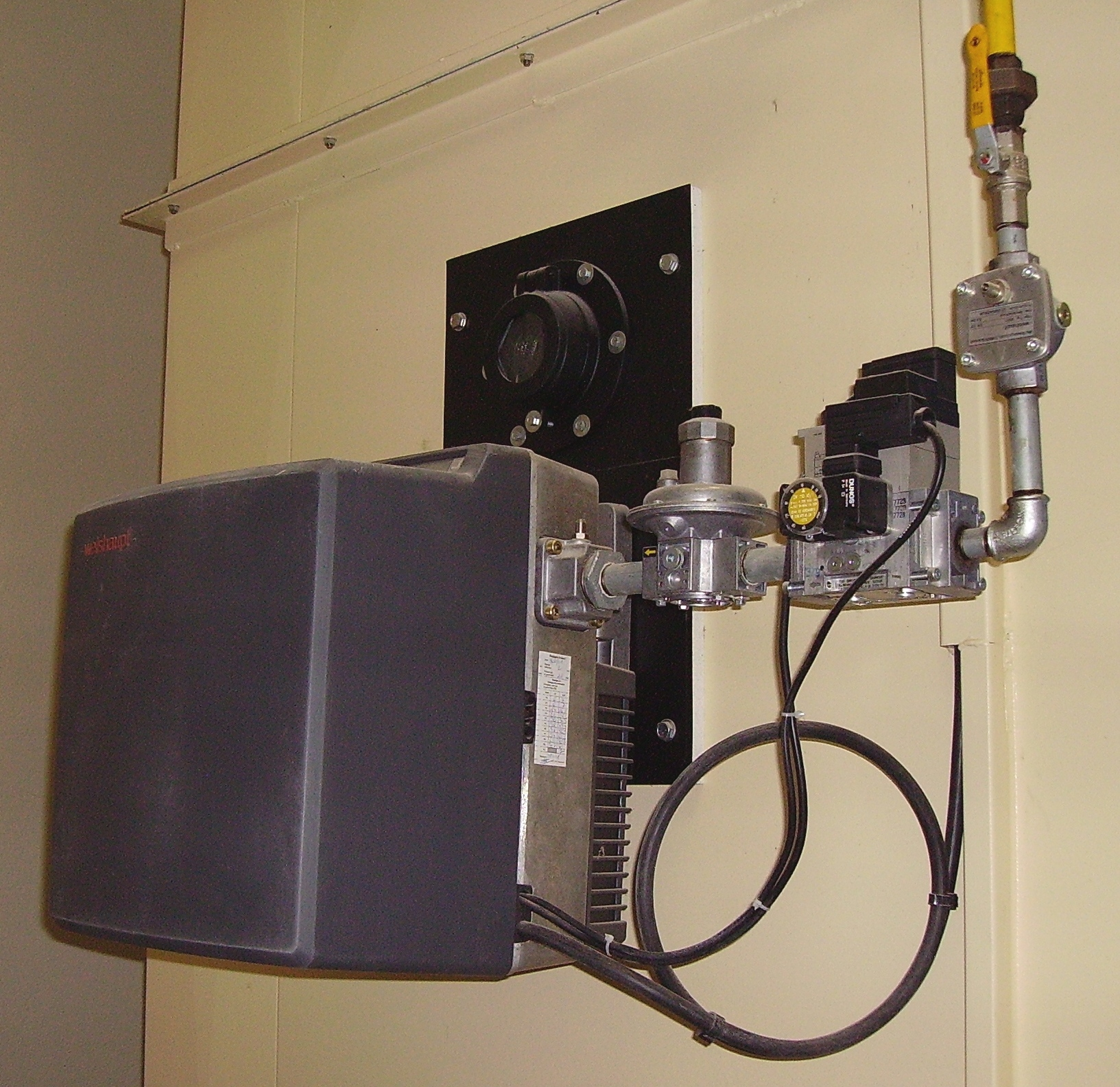 Natural gas (Weishaupt brand) burner, P=300 kW, of an industrial heating oven.